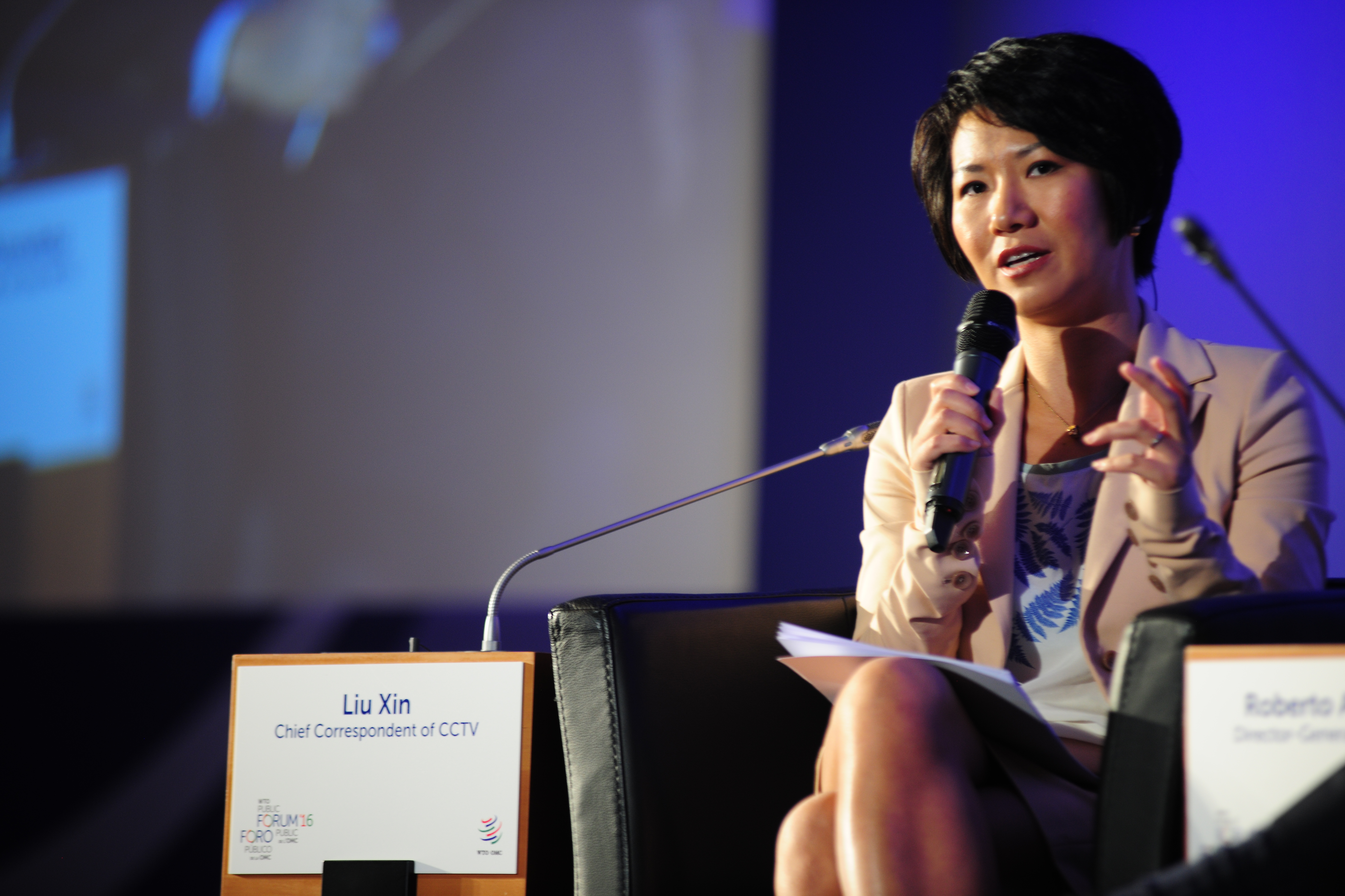 Liu Xin at WTO Public Forum 2016